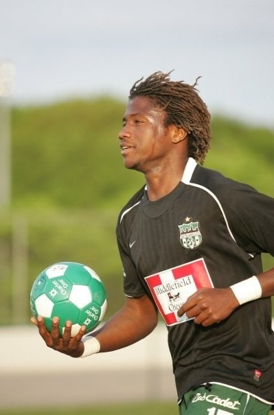 Senegalese soccer player